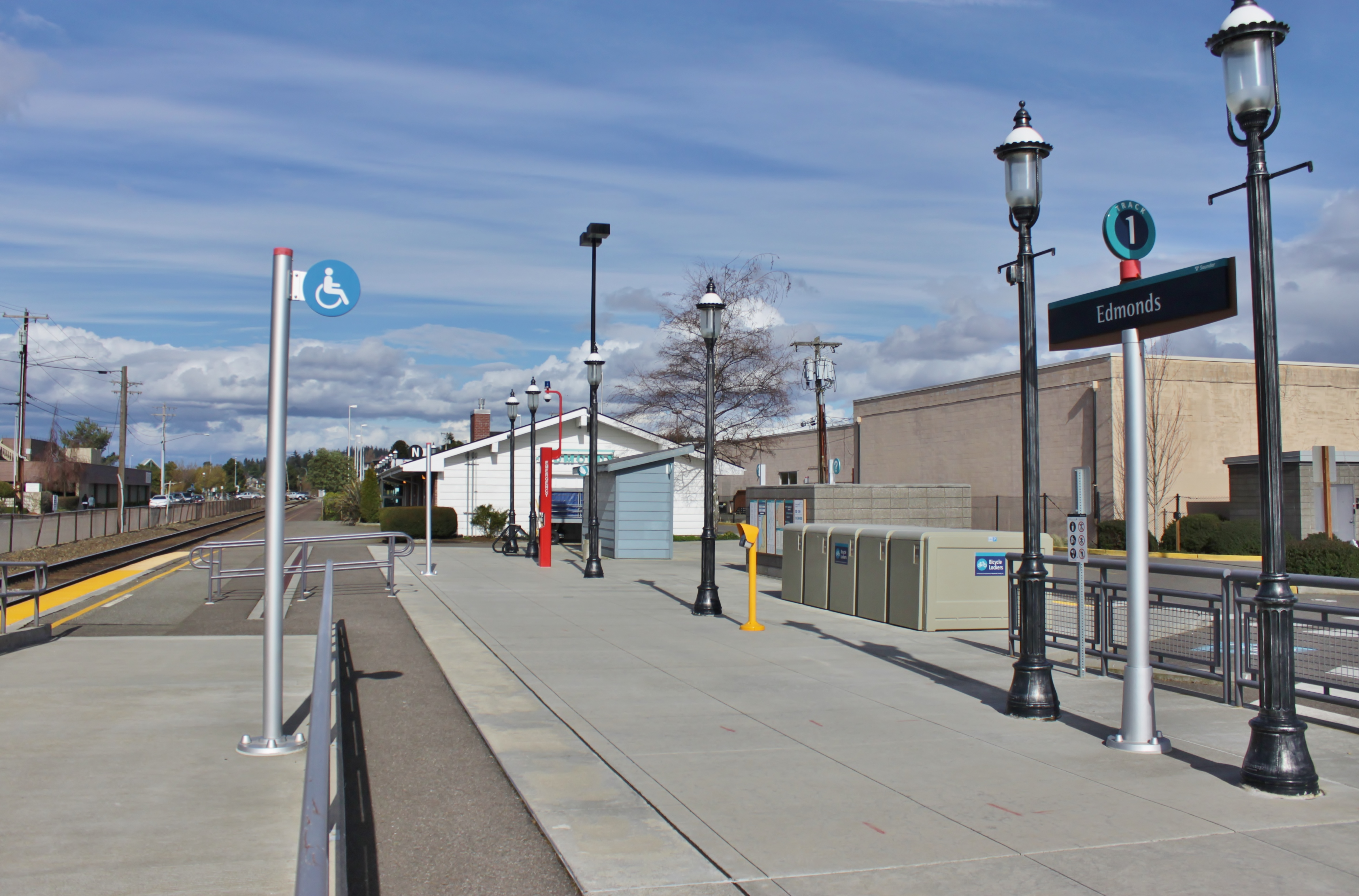 The platform of Edmonds station, served by Amtrak and Sounder commuter rail.